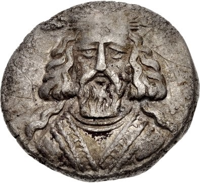 Tetradrachm of Artabanus II, Seleucia mint.